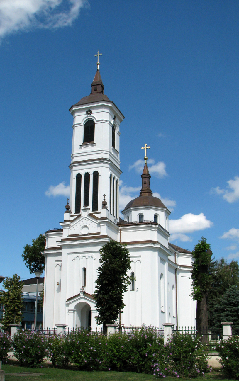 Church of St Djordje, Kladovo, Serbia